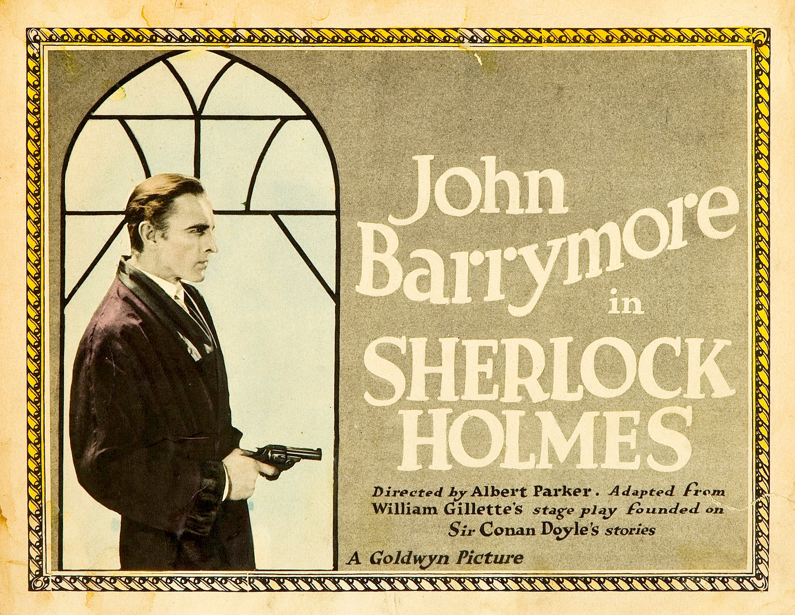 Sherlock Holmes (released as Moriarty in the UK) is a 1922 American silent mystery drama film starring John Barrymore as Sherlock Holmes and Roland Young as Dr. John Watson. This is a lobby card for the film.